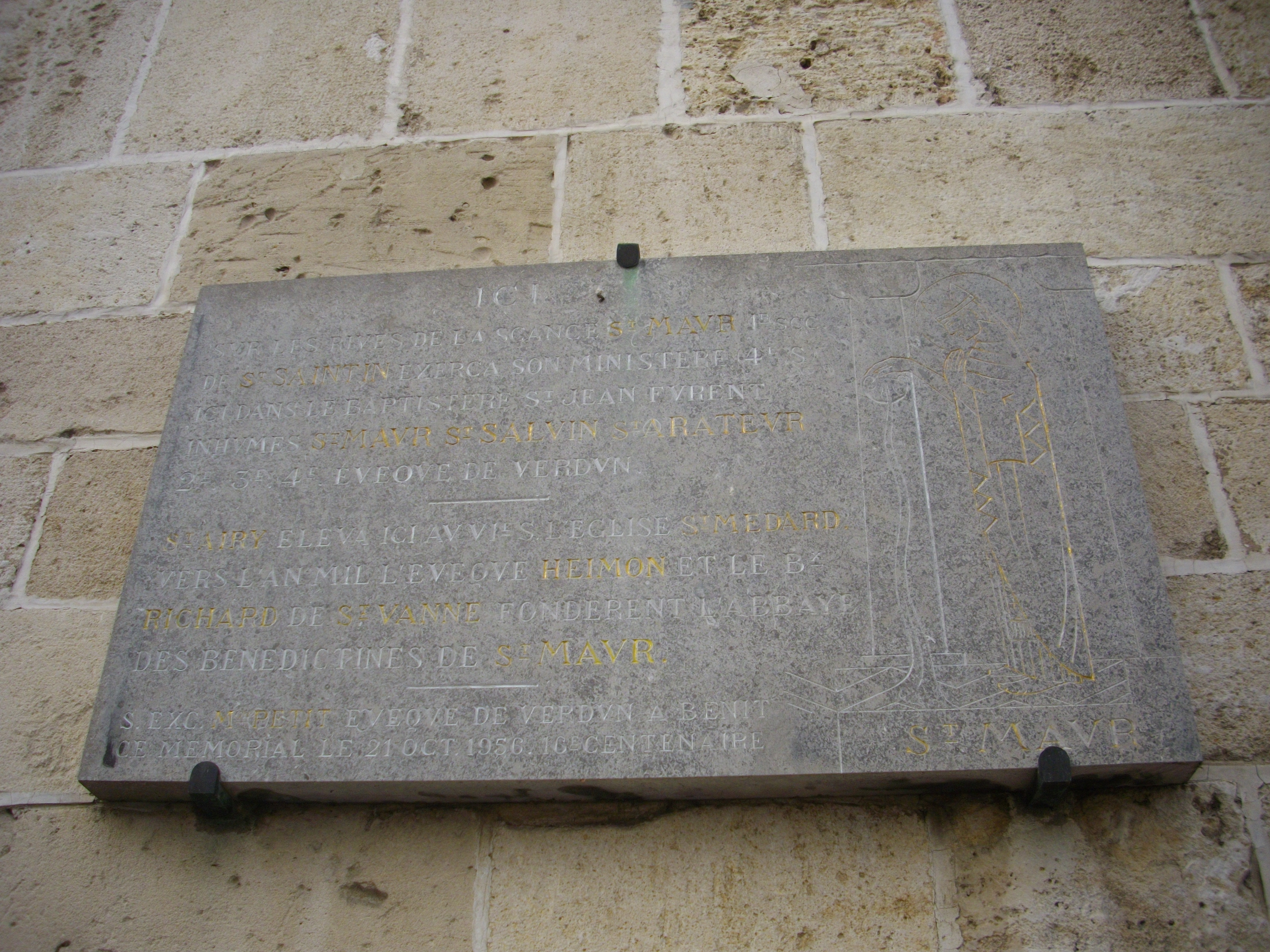 Building at 27 Peace street in Verdun (Meuse, France), plaque Icisvr les rives de la Scance, St Mavr, 1er scc de St Santin exerça son ministère (4e S.). Ici dans le baptistère St Jean fvrent inhvmés St Mavr, St Salvin, St Aratevr, 2e, 3e, 4e évêqve de Verdvn. St Airy éleva ici av VIe S. l'église St Médard. Vers l'an mil, l'évêqve Heimon et le Bx Richard de St Vanne fondèrent l'abbaye des bénédictines de St Mavr. S. Exc. Mgr Petit, évêqve de Verdvn, a bénit ce mémorial le 21 oct. 1956, 16e centenaire. [Ici, sur les rives de la Scance, Saint Maur, 1er scc de Saint Santin exerça son ministère (4e S.). Ici dans le baptistère Saint Jean furent inhumés Saint Maur, Saint Salvin, Saint Arateur, 2e, 3e, 4e évêque de Verdun. Saint Airy éleva ici au VIe S. l'église St Médard. Vers l'an mil, l'évêque Heimon et le Bx Richard de Saint Vanne fondèrent l'abbaye des bénédictines de St Maur. Son Excellence Monseigneur Petit, évêque de Verdun, a bénit ce mémorial le 21 octobre 1956, 16e centenaire.] .